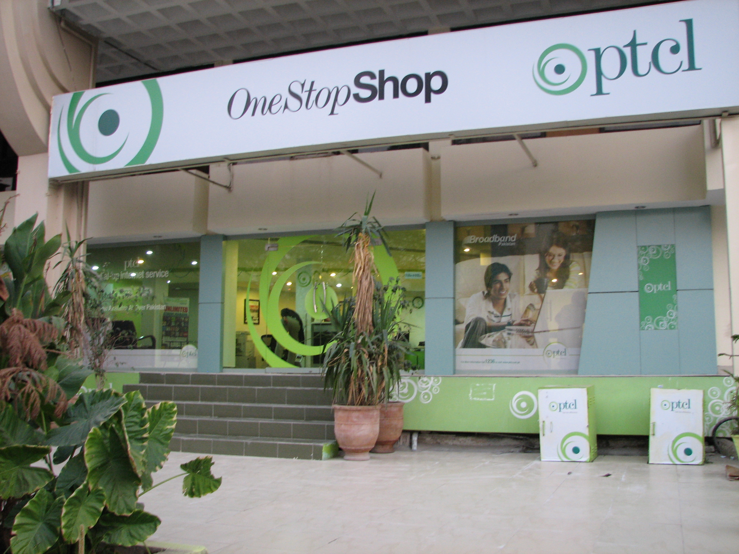 PTCL phone shop on Jinnah Avenue in Islamabad, Pakistan. PTCL is the national telephone company of Pakistan.